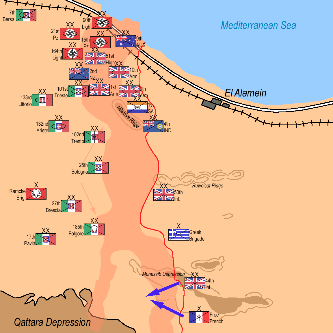 Second Battle of El Alamein: Axis units begin their retreat: November 3rd, 1942.